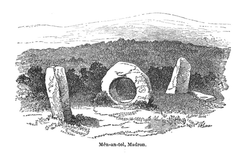 Churches of West Cornwall with Notes of the Antiquities of the District - Mên-an-Tol